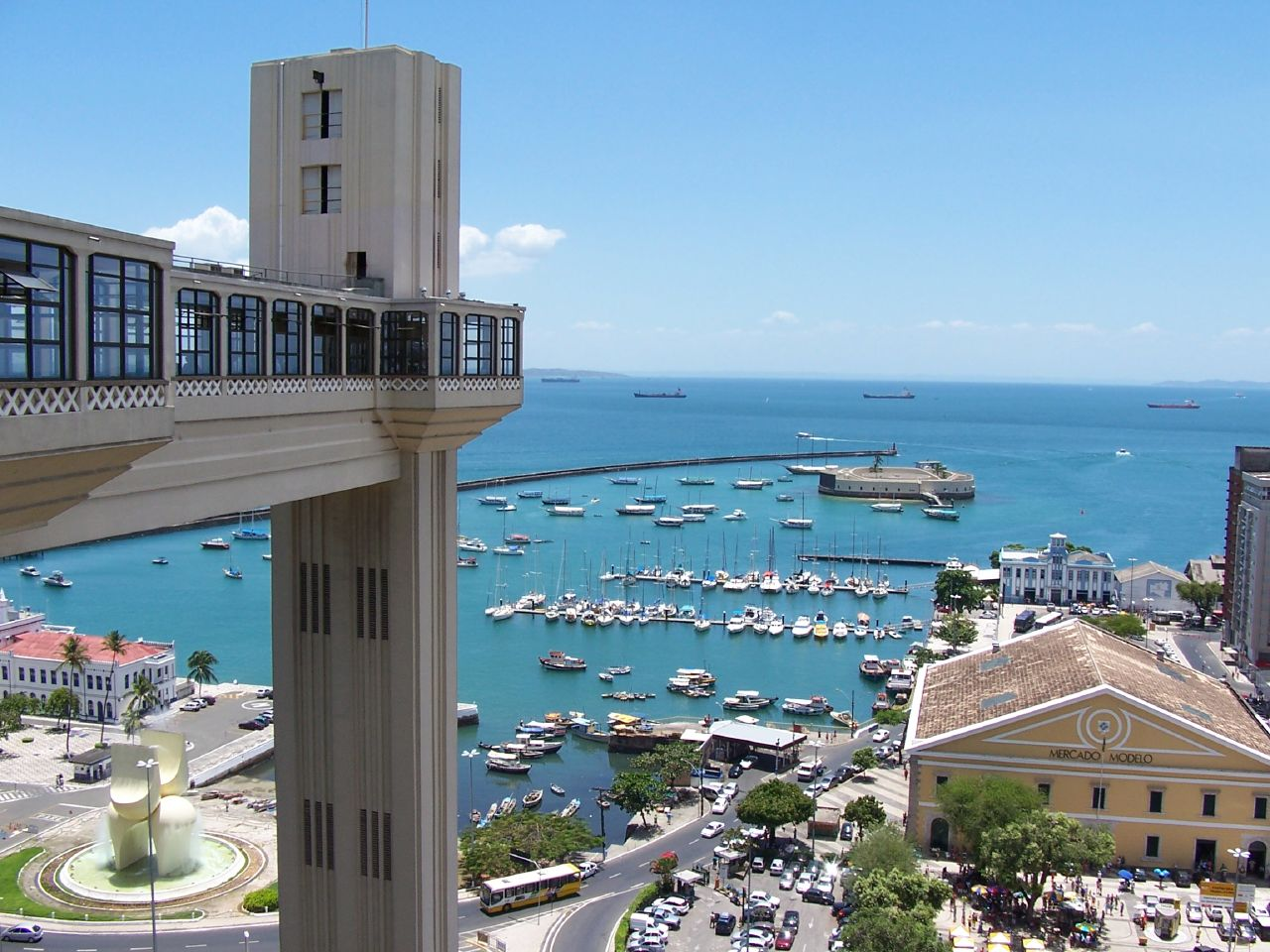 Lacerda Elevator, in Salvador.Elevador Lacerda e Mercado Modelo